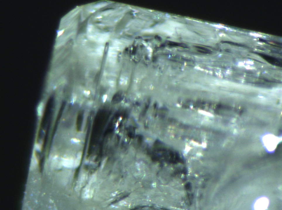 Single crystal of tetramethylammonium iodide. The crystal was characterized by single crystal X-ray diffraction, P4/nmm, a=7.95 Å, b=7.95 Å, c=5.74 Å, α=90°, β=90°, γ=90°.